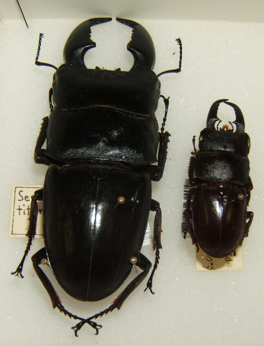 Dorcus titanus adult taken by Shawn Hanrahan at the Texas A&M University Insect Collection in College Station, Texas.